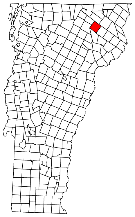 Map of Vermont towns with Westmore highlighted